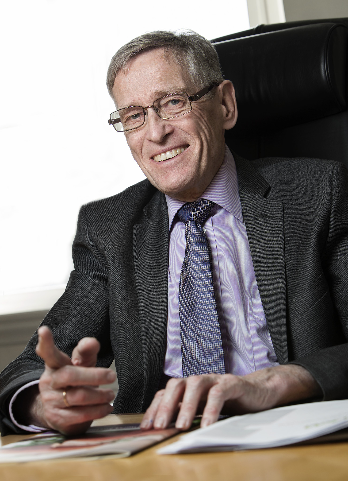 Lars E. Hanssen, director of Vitenskapkomiteen for mattrygghet (VKM)The Norwegian Scientific Committee for Food and Environment.